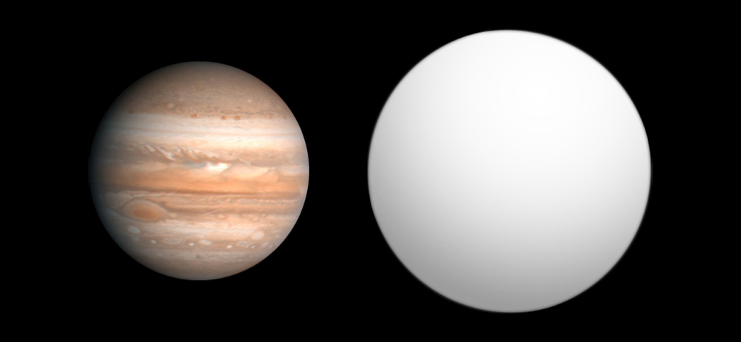 Comparison of best-fit size of the exoplanet HAT-P-16 b with the Solar System planet Jupiter, as reported in the Open Exoplanet Catalogue[1] as of 2010-09-30. ↑ Open Exoplanet Catalogue (2010-09-30). Retrieved on 2010-09-30.